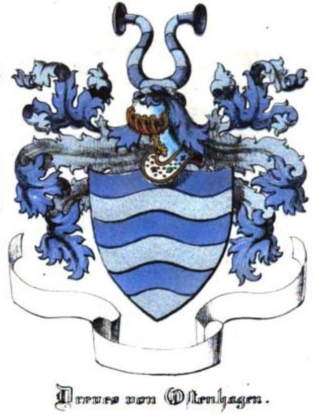 Coat of Arms Dreves-Ostenhagen